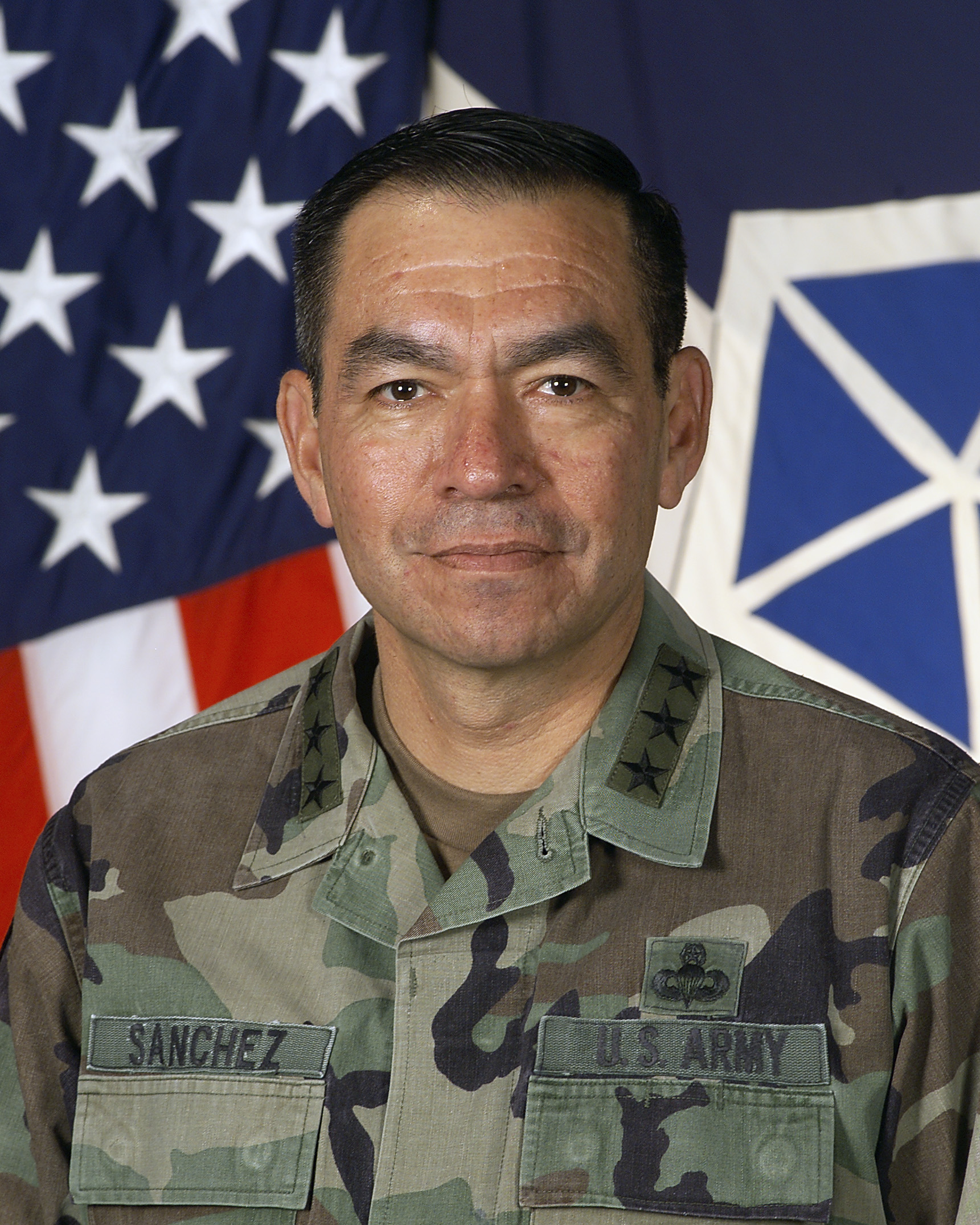 Lt. General Ricardo Sanchez, Commander V. Corps, 7th Army, US Army Europe.